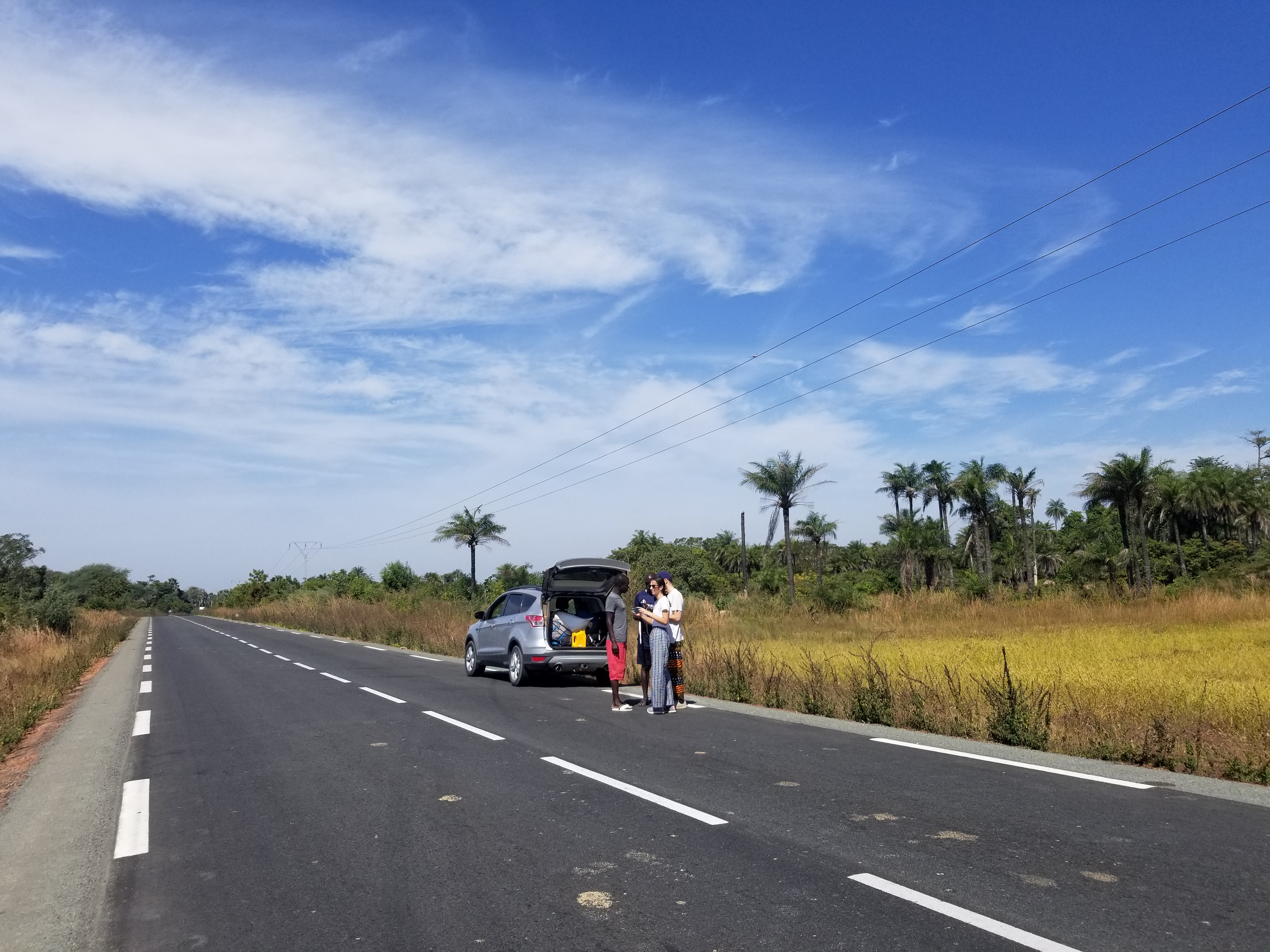 Despite almost all the roads are very bad in Senegal this one was very well made. We have stopped to make some pictures of a cuople gathering their harvest of rice This is an image with the theme "Africa on the Move or Transport" from: Senegal